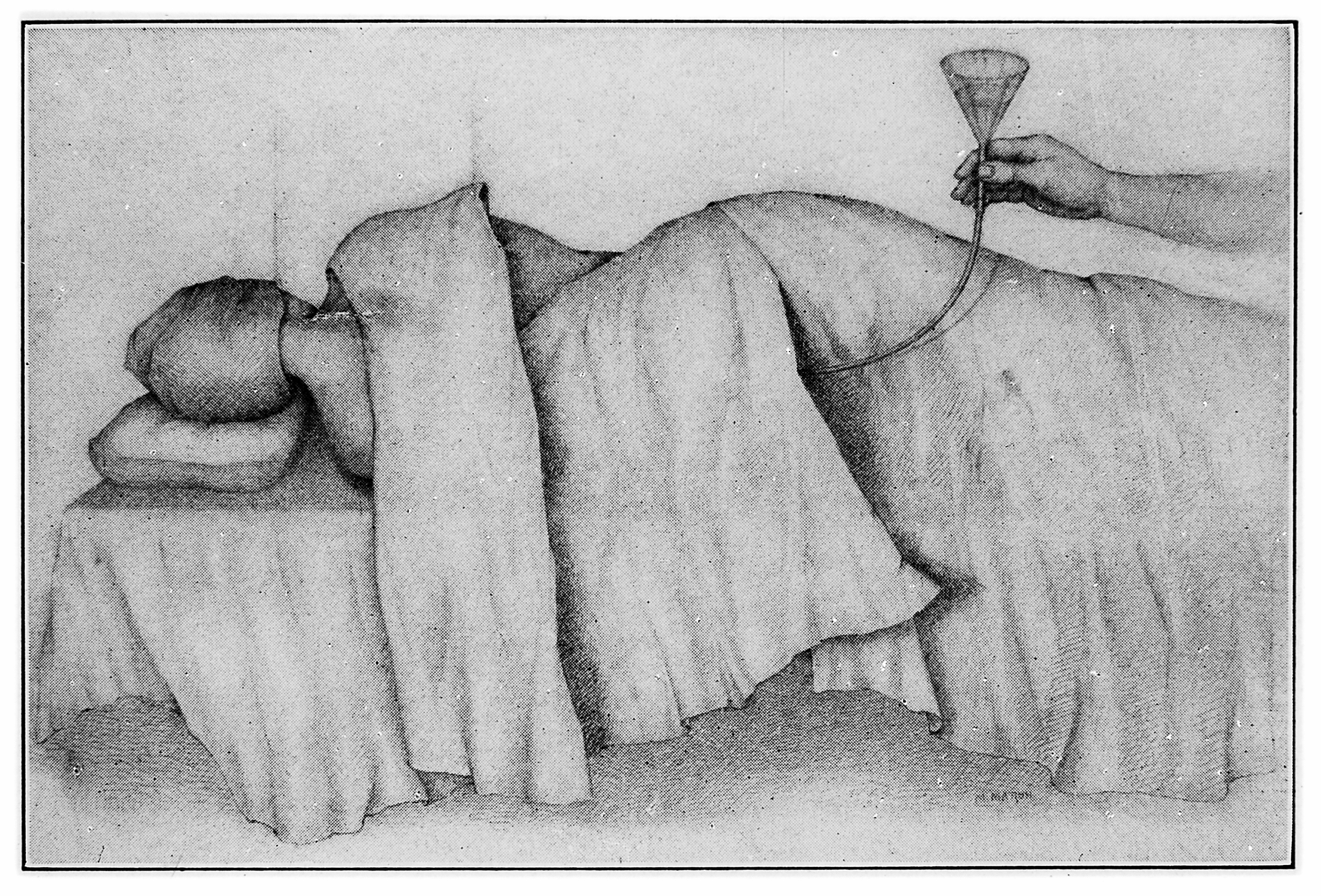 Illustration of patient in position for oil-ether administration General Collections Keywords: James Tayloe Gwathmey; oil-ether administration